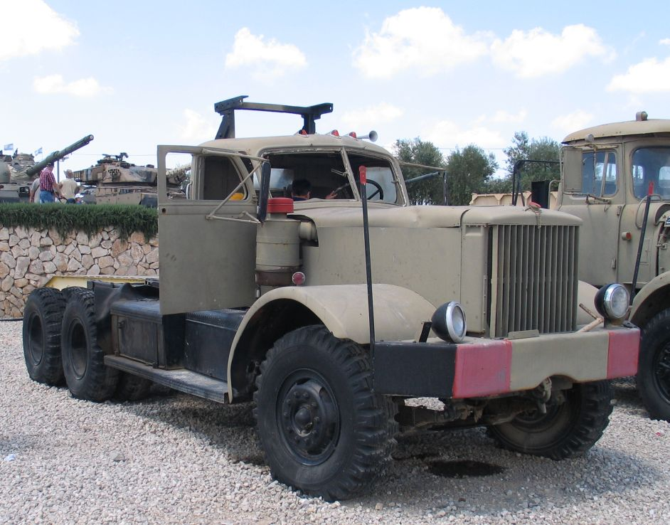 A Diamond T truck in Yad la-Shiryon Museum, Israel.